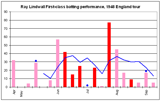 FC batting chart for Ray Lindwall during the 1948 tour of England. Blue line is an average for five most recent innings, blue dots are not outs. Bars are runs scored. Pink for FC, red for Tests